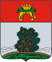 Bezhetsk (Tver oblast), coat of arms (1780)